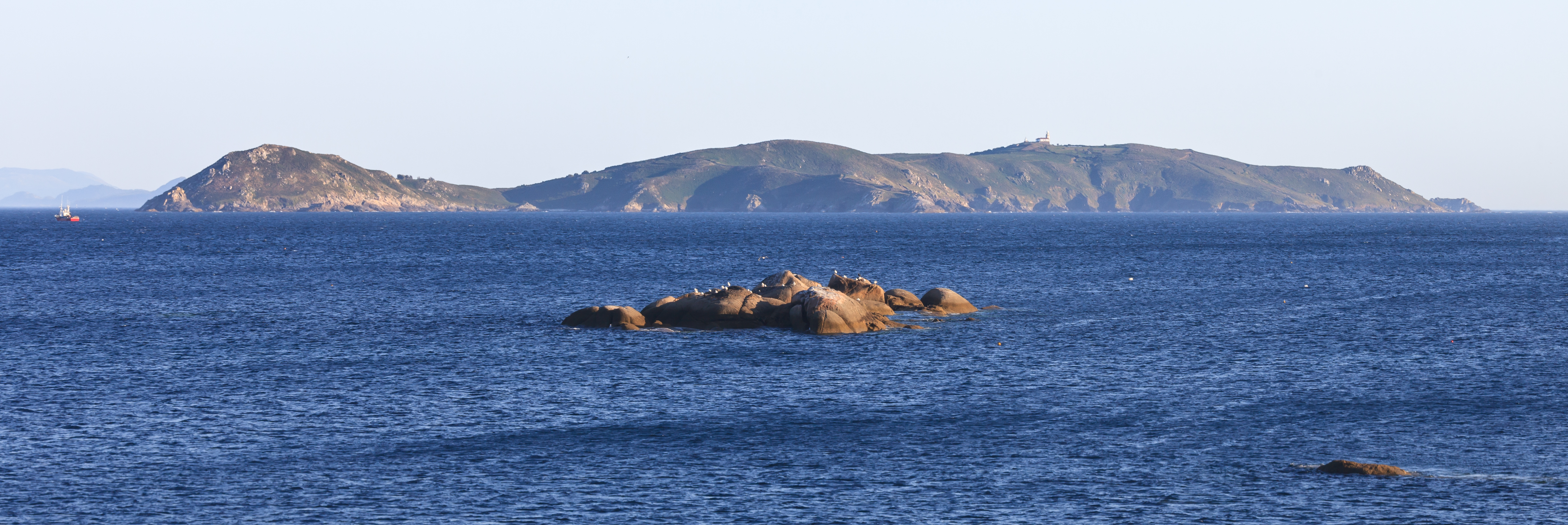 Sea and rocks in the ria of Pontevedra. At background, Ons islands. San Vicente do Mar, O Grove, Galicia, Spain.